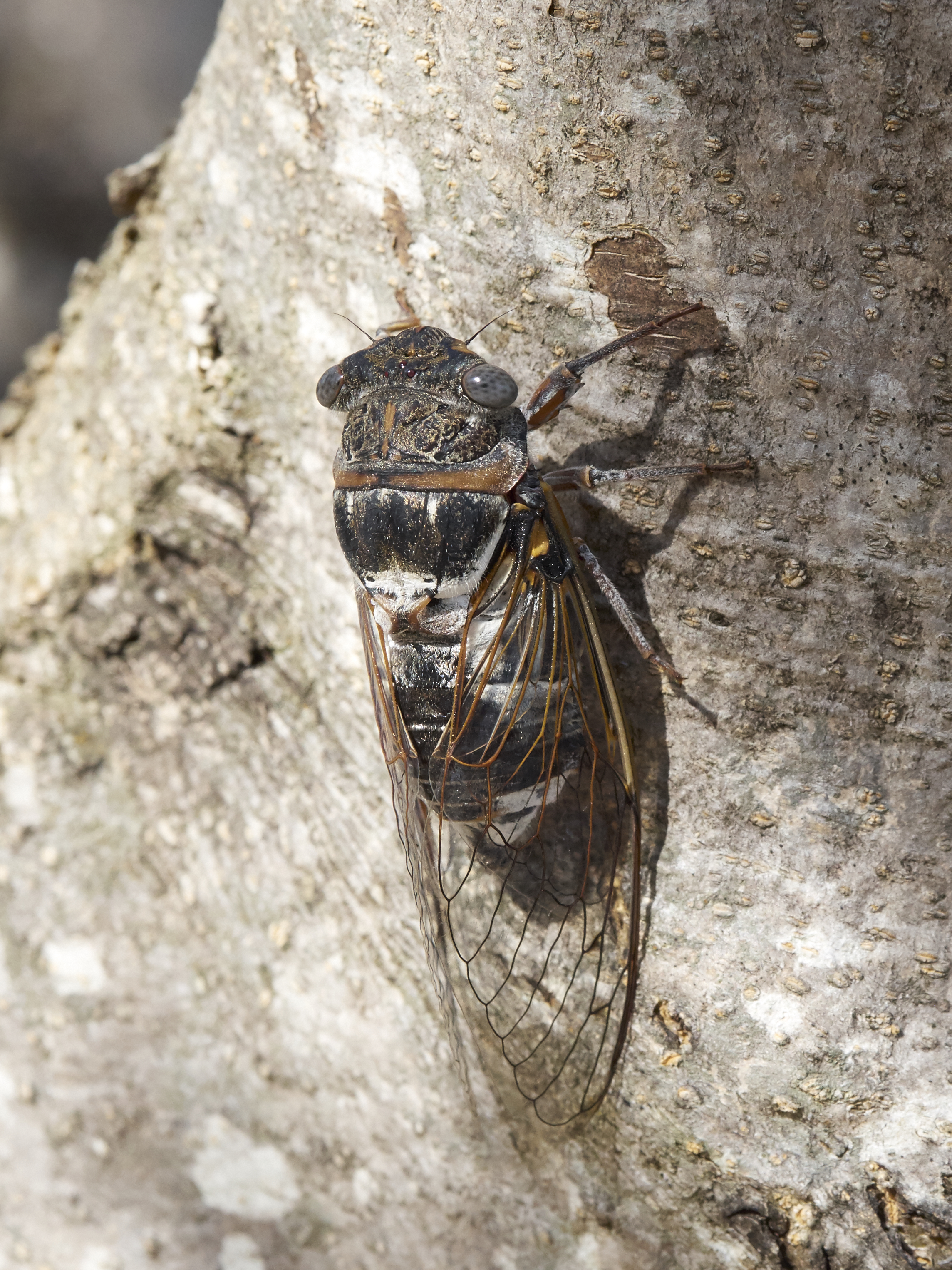 A cicada (cicada orni, according to WP:de/Redaktion Biologie/Bestimmung) on an olive tree near Koroni, Greece